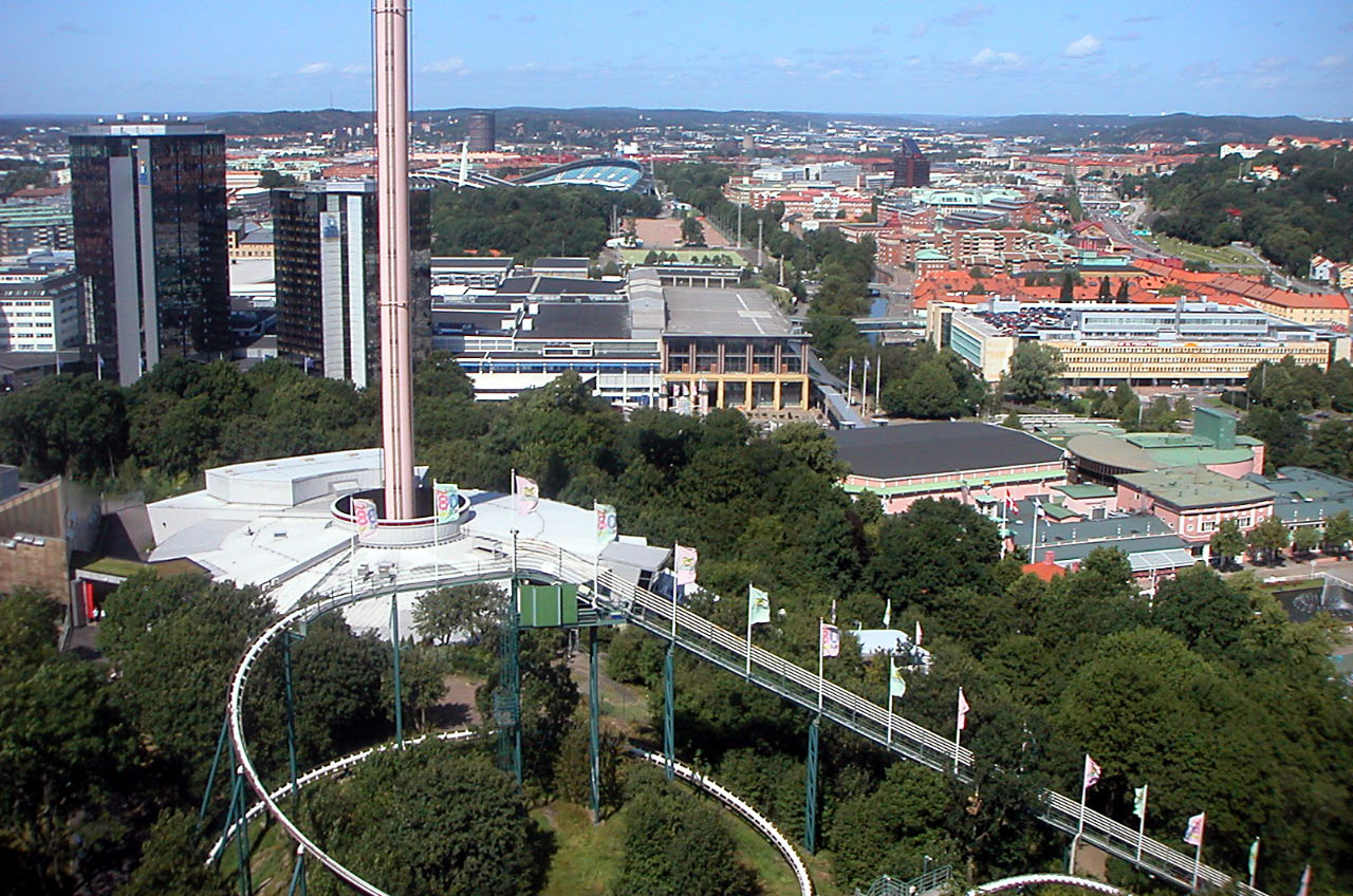 Göteborg/Gothenburg seen from one of the rides at Liseberg amusement park.